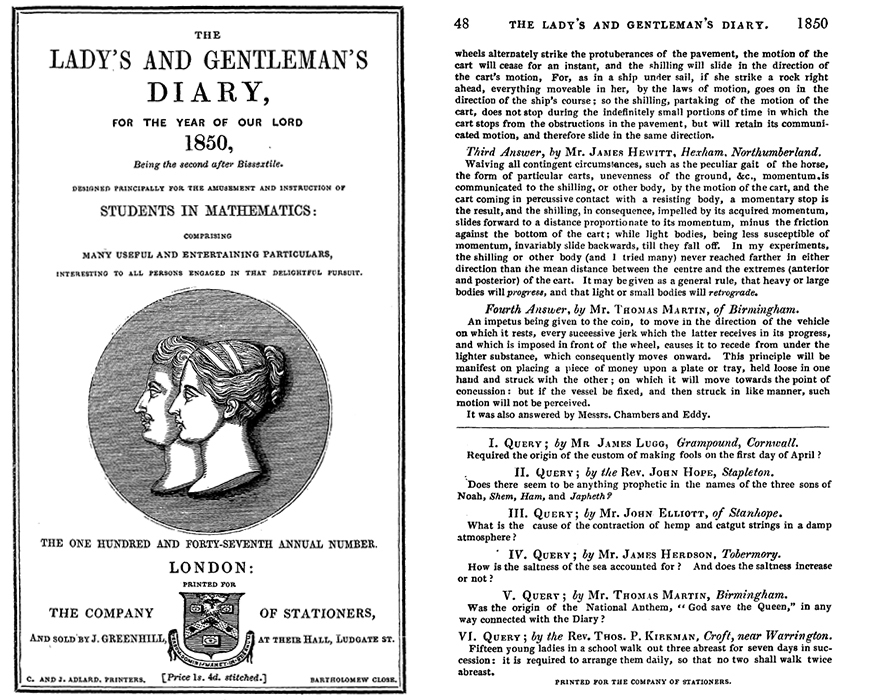 cover page and page 48 of "The Lady's and Gentleman's Diary" of 1850